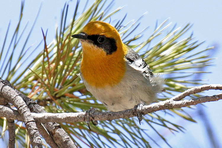 Olive Warbler Peucedramus taeniatus, Cave Creek Canyon, Arizona, USA.